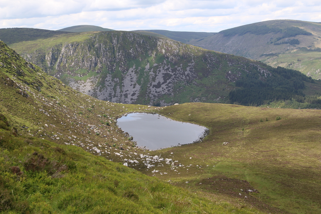 Arts Lough in Wicklow looking across the Fraughan Rock Glen to the summit and cliffs of Benleagh (Conavalla is the mountain in the background right